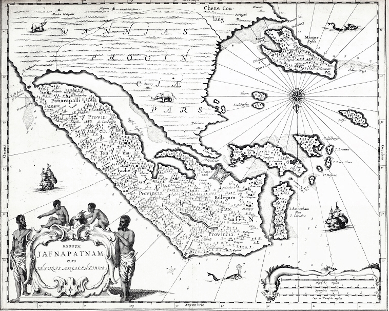 Antique map of Jafnapatnam and adjacent islands (copper engraving). The province of Jaffna , and specially the fort at Jaffnapatnam were the last Portuguese holdings in Ceylon before they were driven out by the Dutch in 1658. printed in 1672 for Baldaeus' work 'A true and exact description of the most celebrated East-India coasts of Malabar and Coromandel and also of the Isle of Ceylon', published in Amsterdam in 1672 by Jansssonius van Waasberge en van Someren.